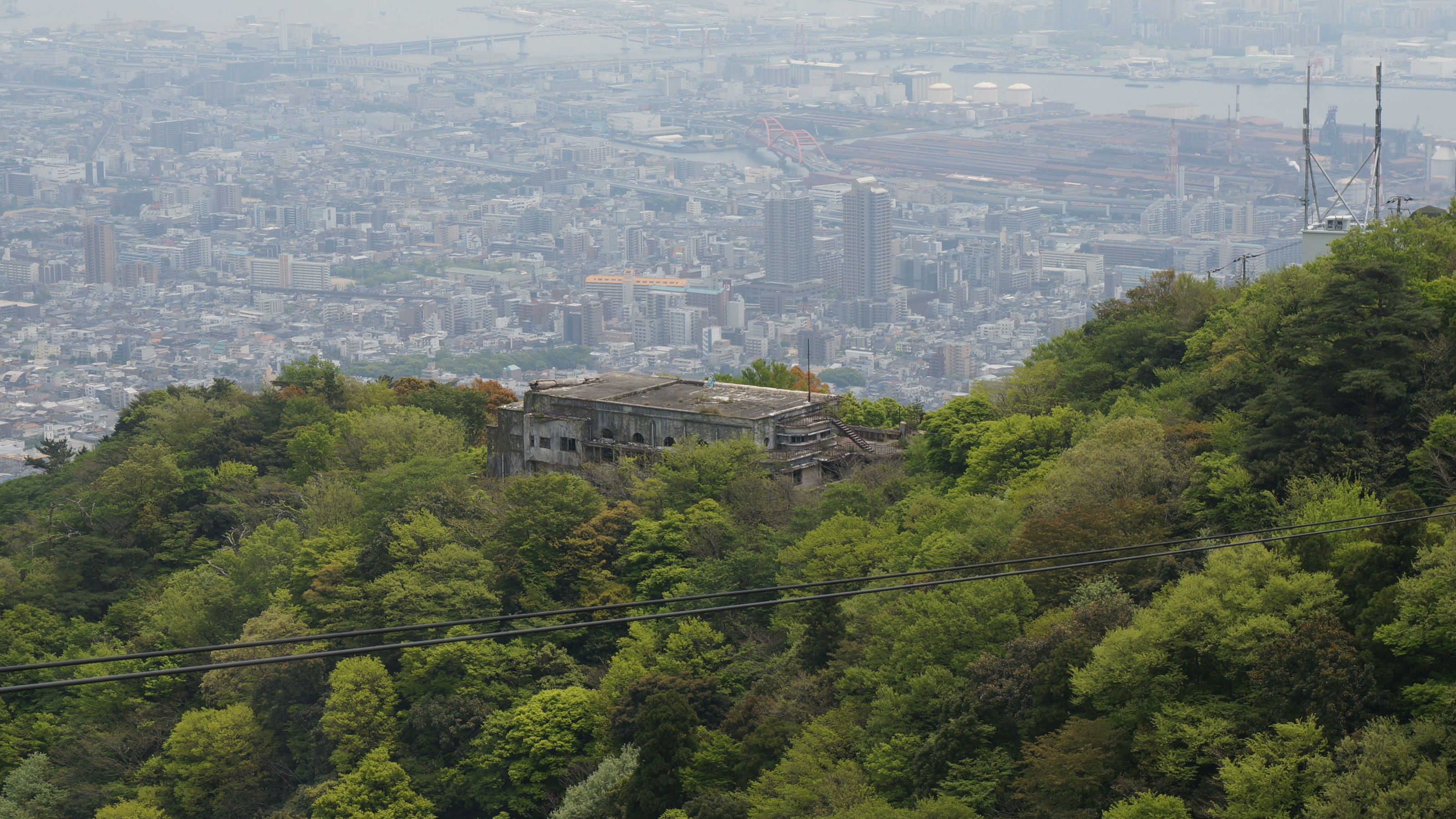 Maya kanko hotel abandoned 1993.